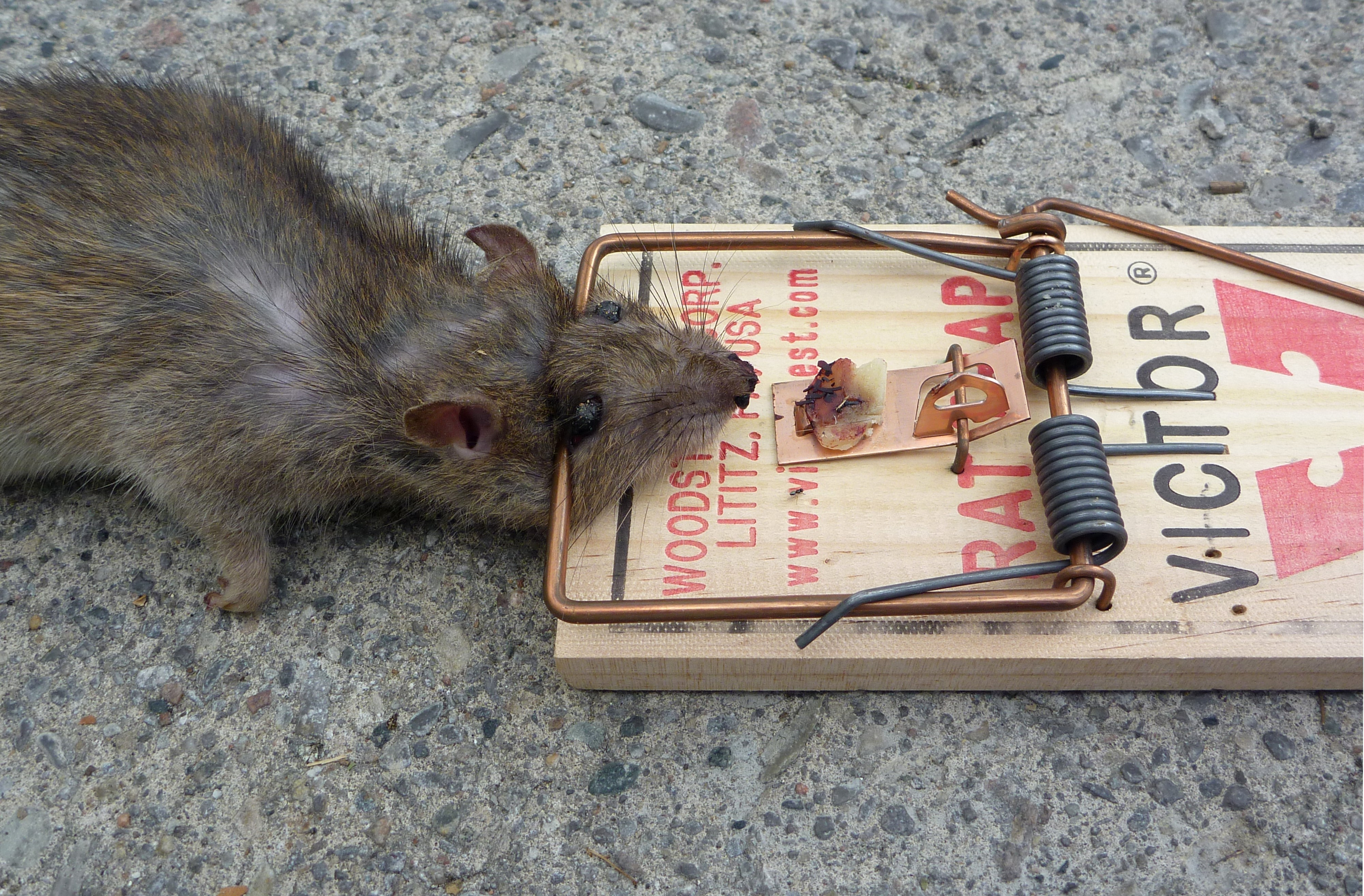 Victor Rat Trap with rat